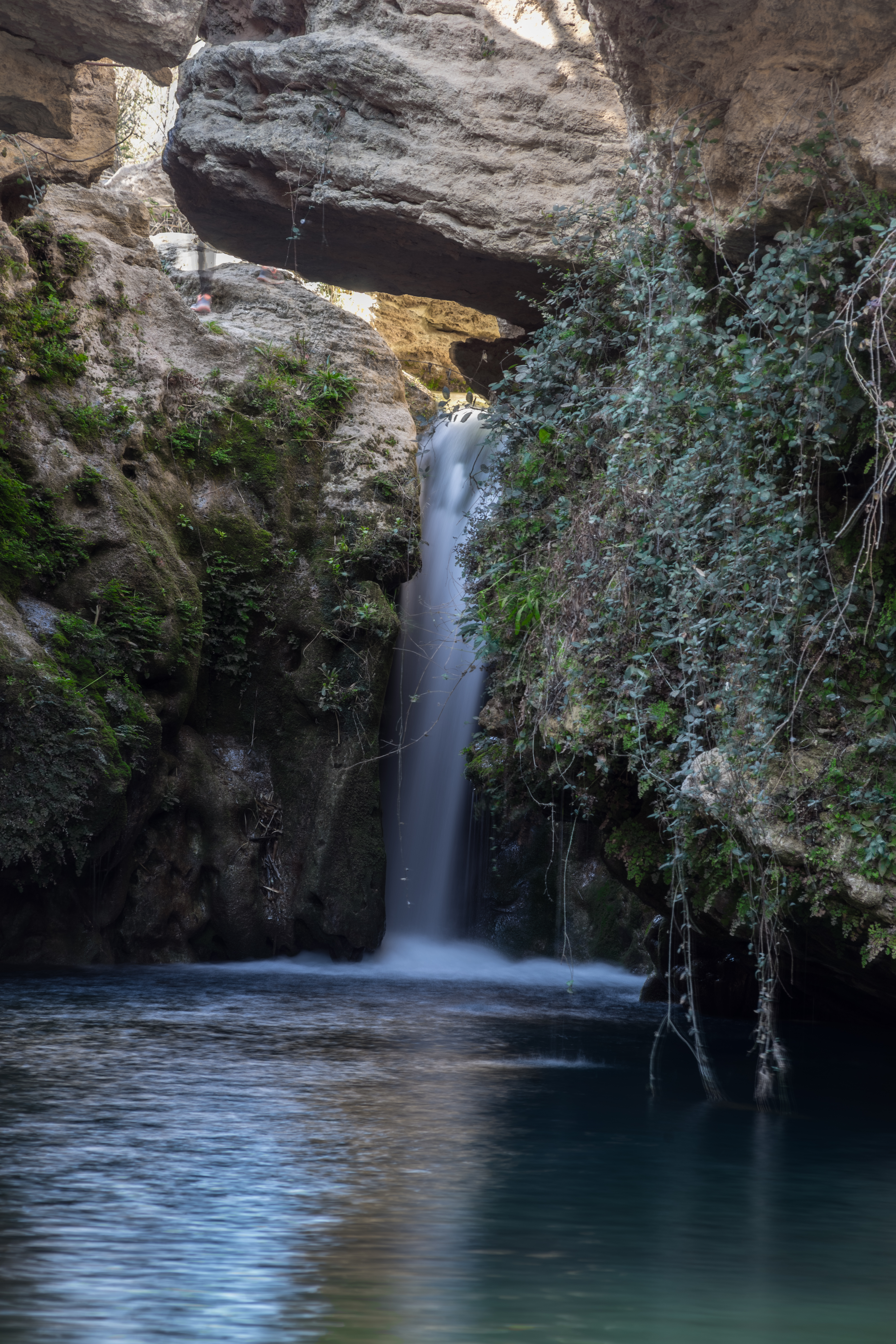 Salto del Usero, in Bullas, Murcia. Mula River.